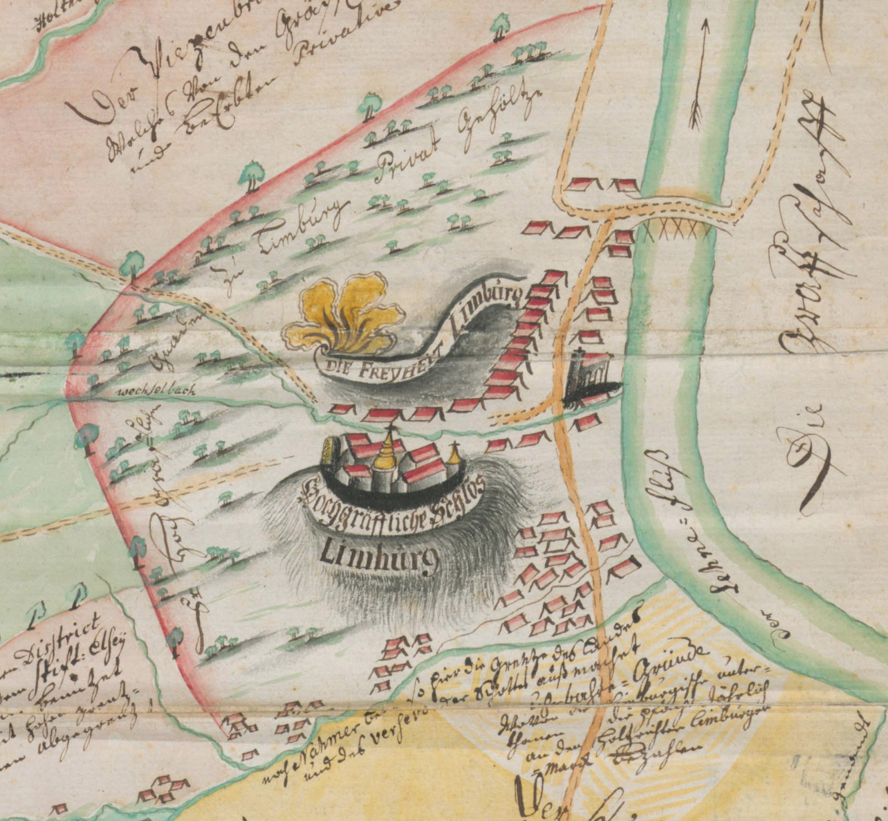 Map of the Limburger Mark, Germany, 1782 (detail)